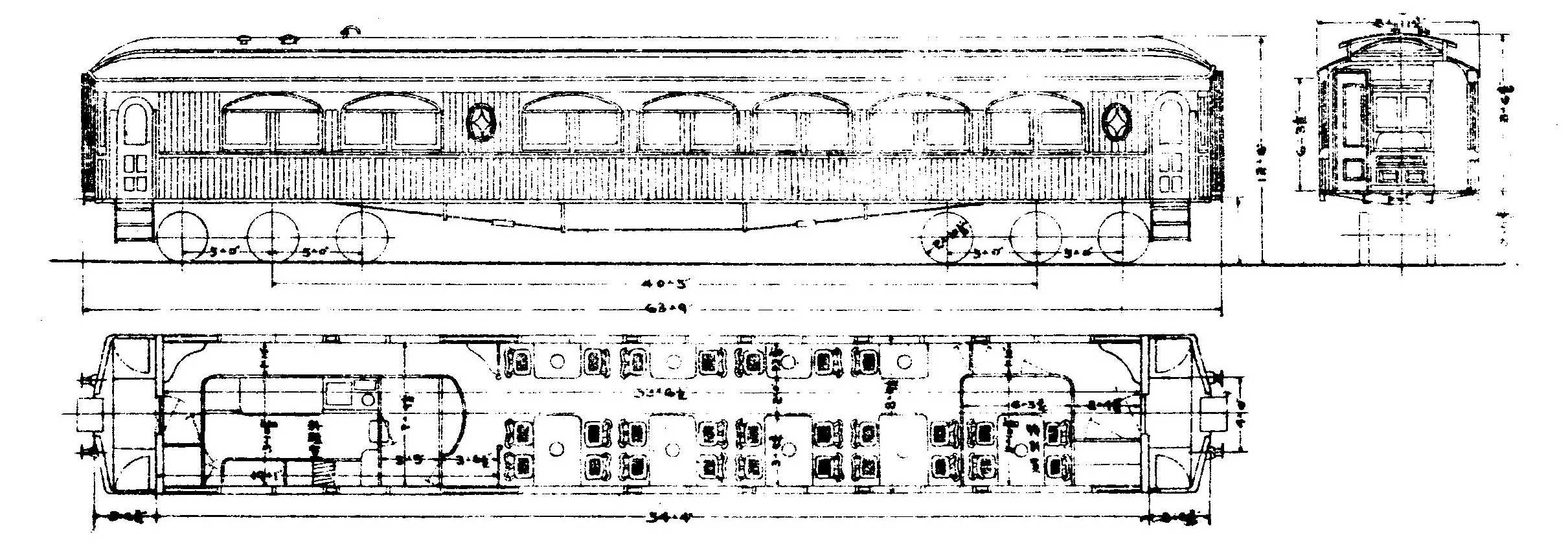 Type drawing of JGR's Sushi9150 type passenger car.